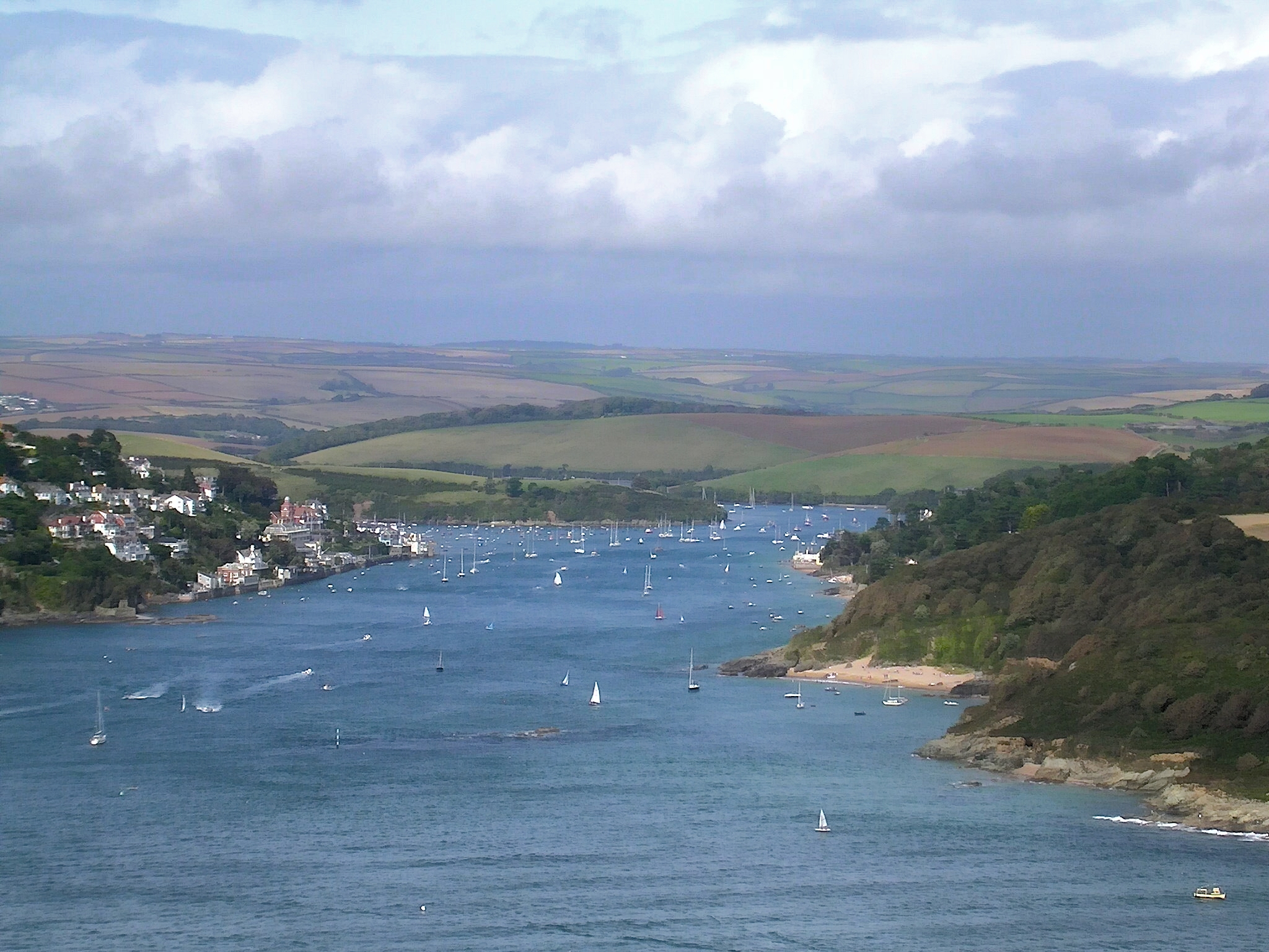 photograph of Salcombe (UK) estuary from Sharpitor